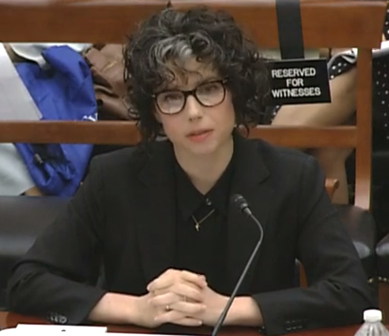 House Science, Space, and Technology Committee Hearing: Artificial Intelligence: Societal and Ethical Implications (EventID=109688) 2318 Rayburn House Office Building Washington, DC 20515 Witnesses: Ms. Meredith Whittaker, Co-Founder, AI Now Institute, New York University Mr. Jack Clark, Policy Director, OpenAI Mx. Joy Buolamwini, Founder, Algorithmic Justice League Dr. Georgia Tourassi, Director, Health Data Sciences Institute, Oak Ridge National Laboratory